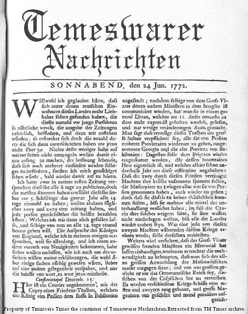 Cover of the Temeswarer Nachrichten on 24 Jan 1772